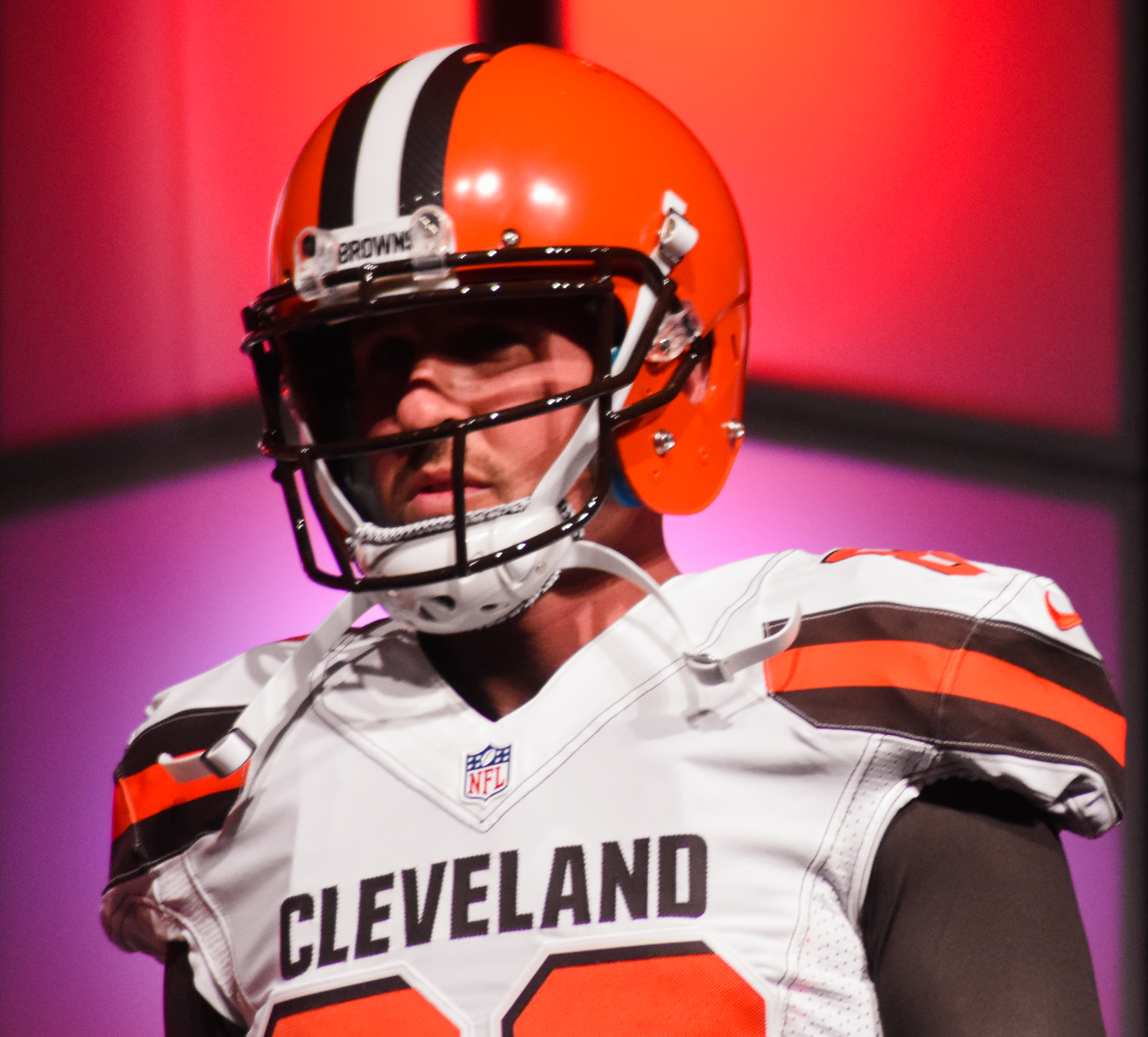 Cleveland Browns New Uniform Unveiling